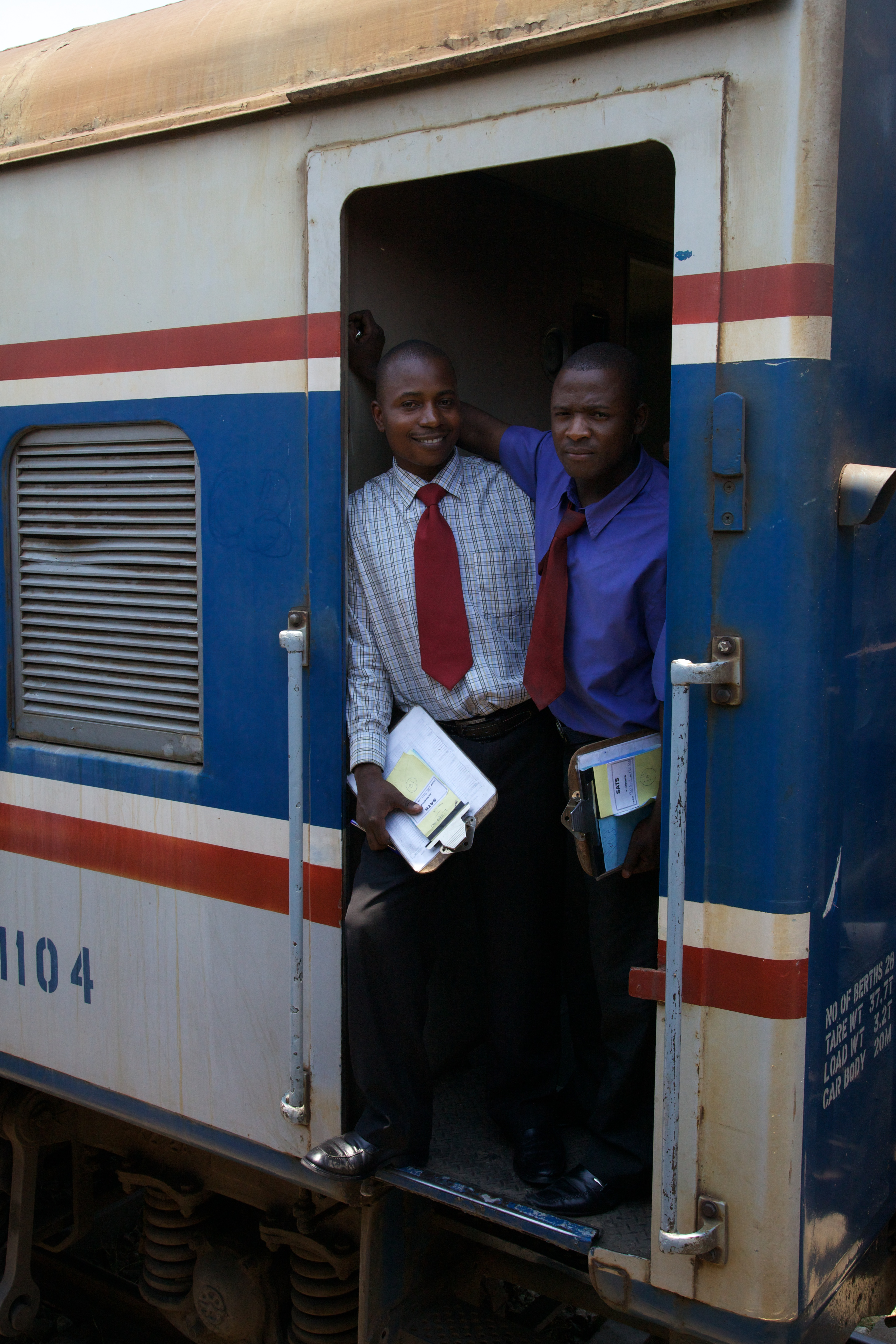 Aboard the Mukuba Express passenger train on the Tazara Railroad in Zambia, Africa.